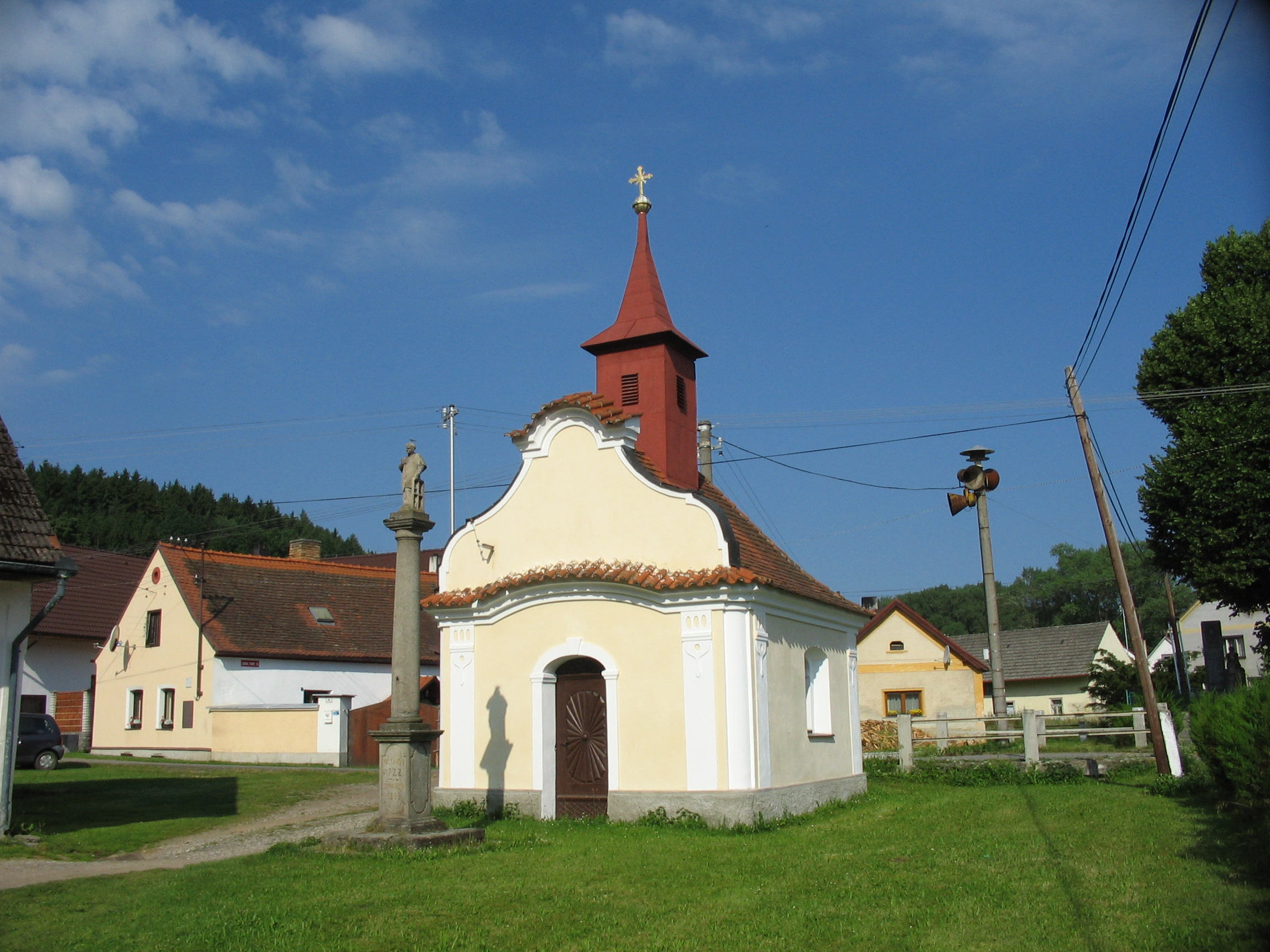 Saint Francis chapel and column in Kalenice, Strakonice District, Czech Republic